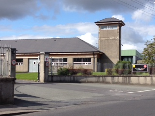 Aiken Barracks. Irish Army facility, Dundalk, County Louth.